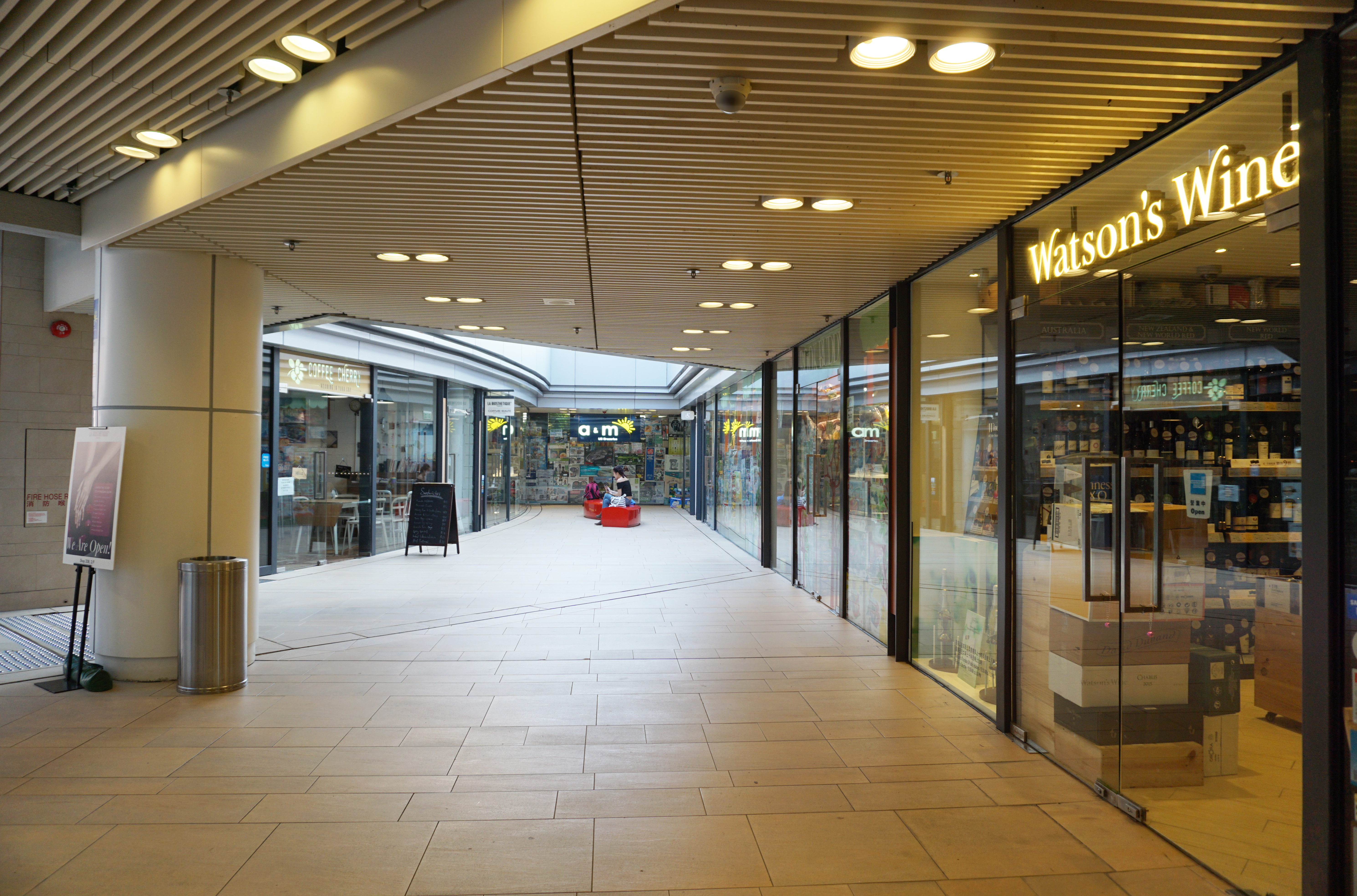 Stanley Plaza in Stanley, Hong Kong.